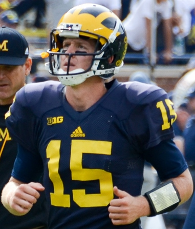 University of Michigan quarterback Jake Rudock.